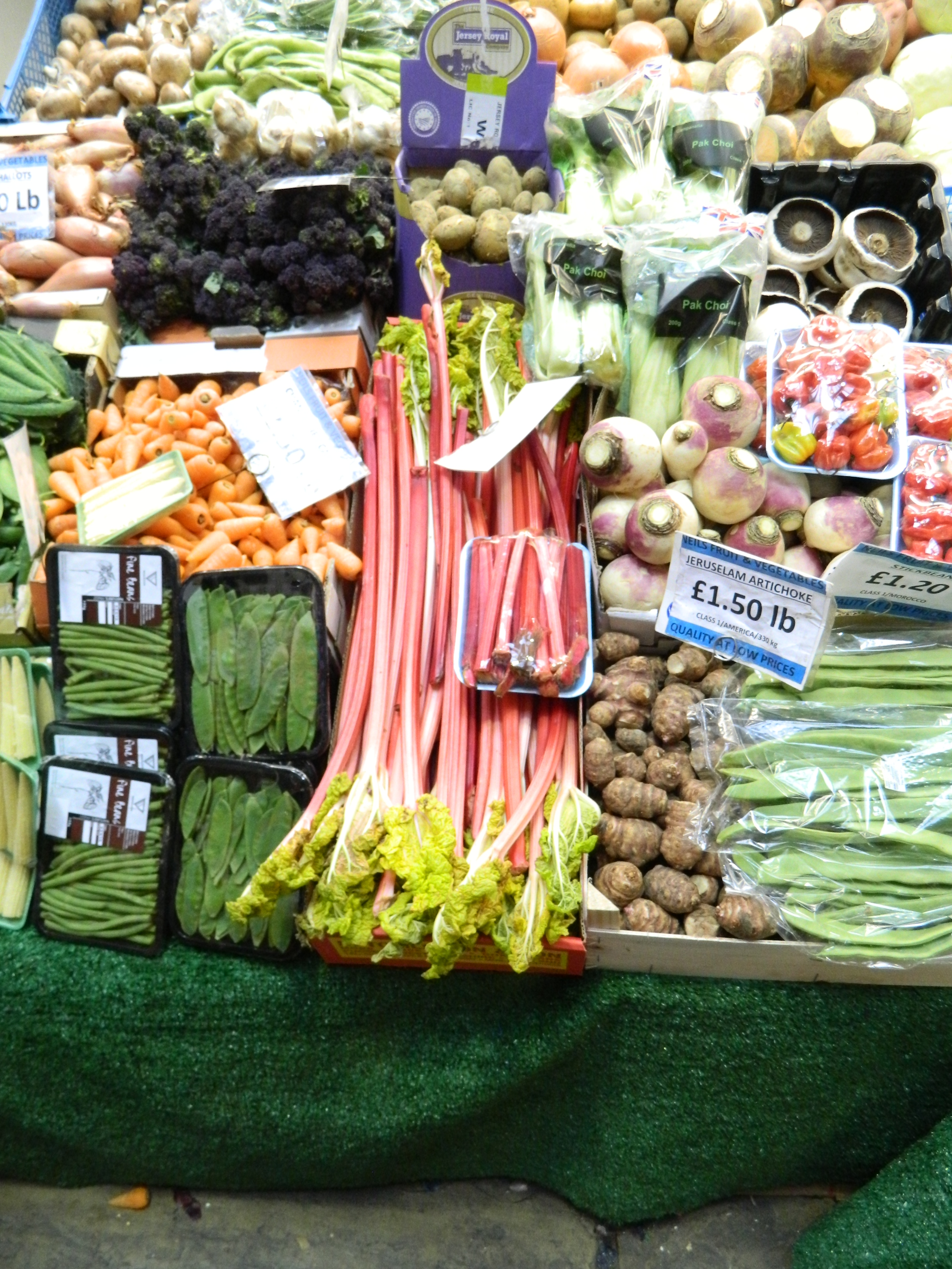 Rhubarb on sale in Kirkgate Market, Leeds